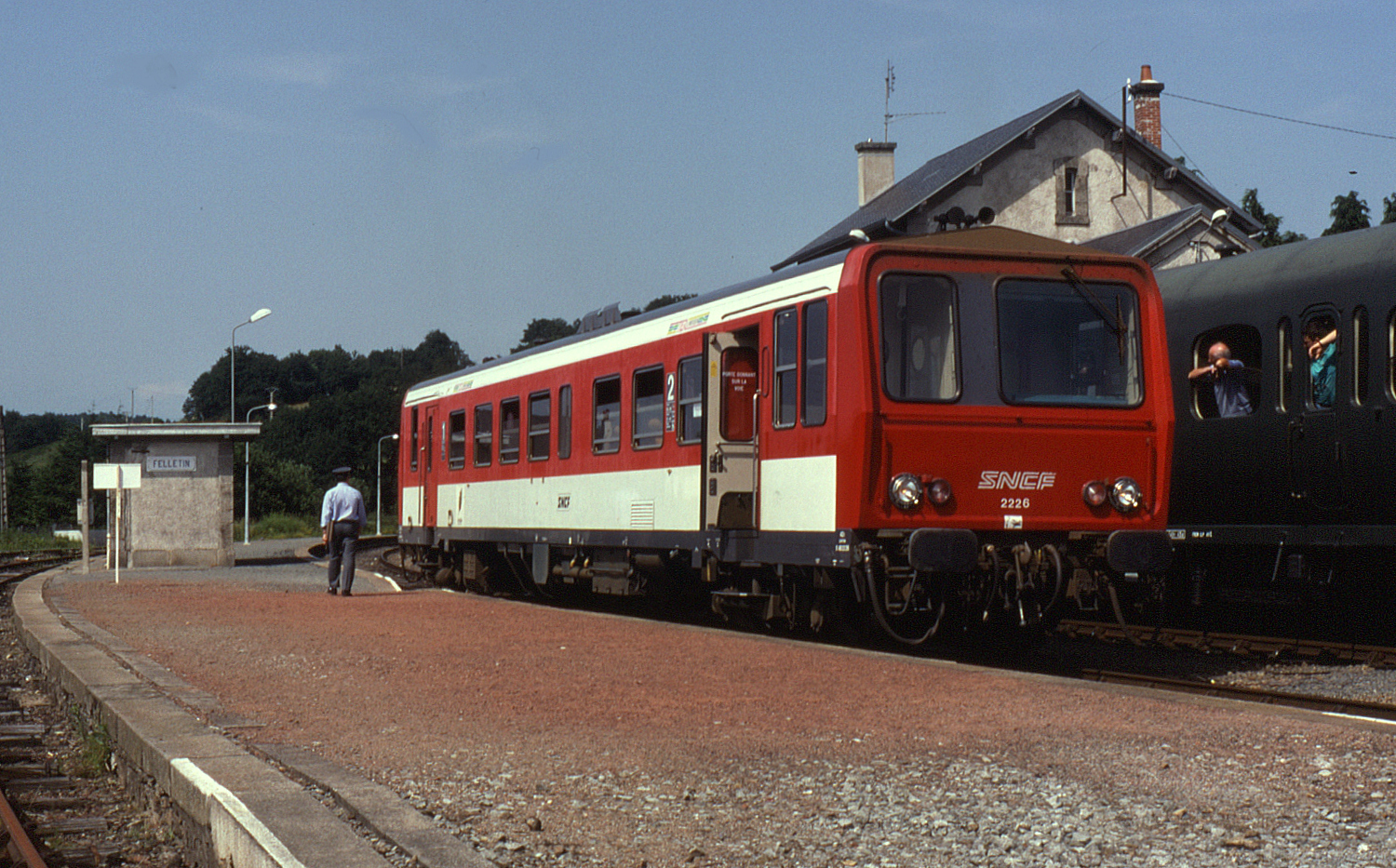 X 2226 at Felletin on 4 July 1993.